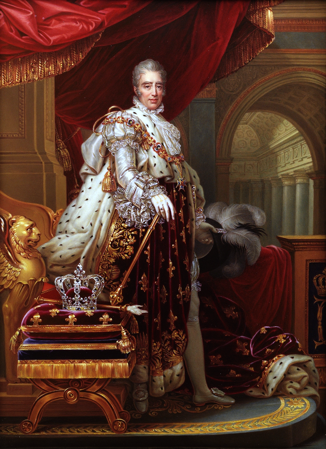 Portrait of King Charles X of France in his coronation robes